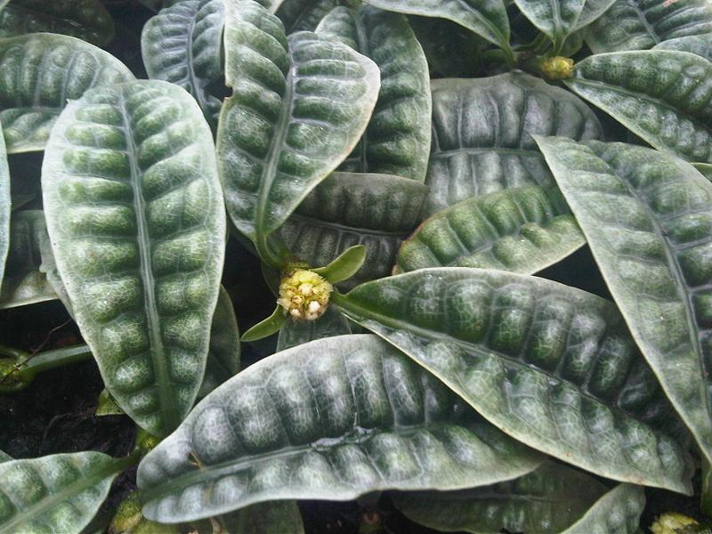 Psychotria ankasensis leaves in Kew Gardens, England.